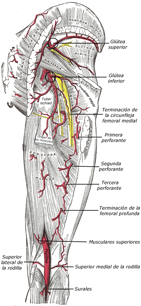 The arteries of the gluteal and posterior femoral regions.